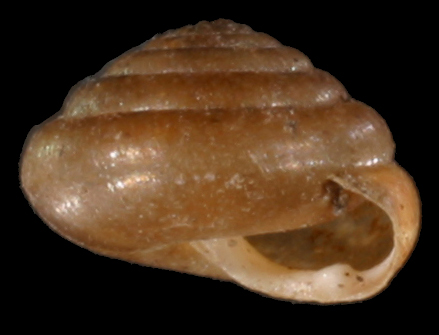 Photo of shell of Petasina unidentata. Locality: Slovakia: Striebornica. Date: 8 September 1980.